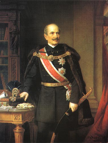 Count Imre Mikó de Hidvég (1805–1876), Transylvanian and Hungarian landowner, politician and historian.